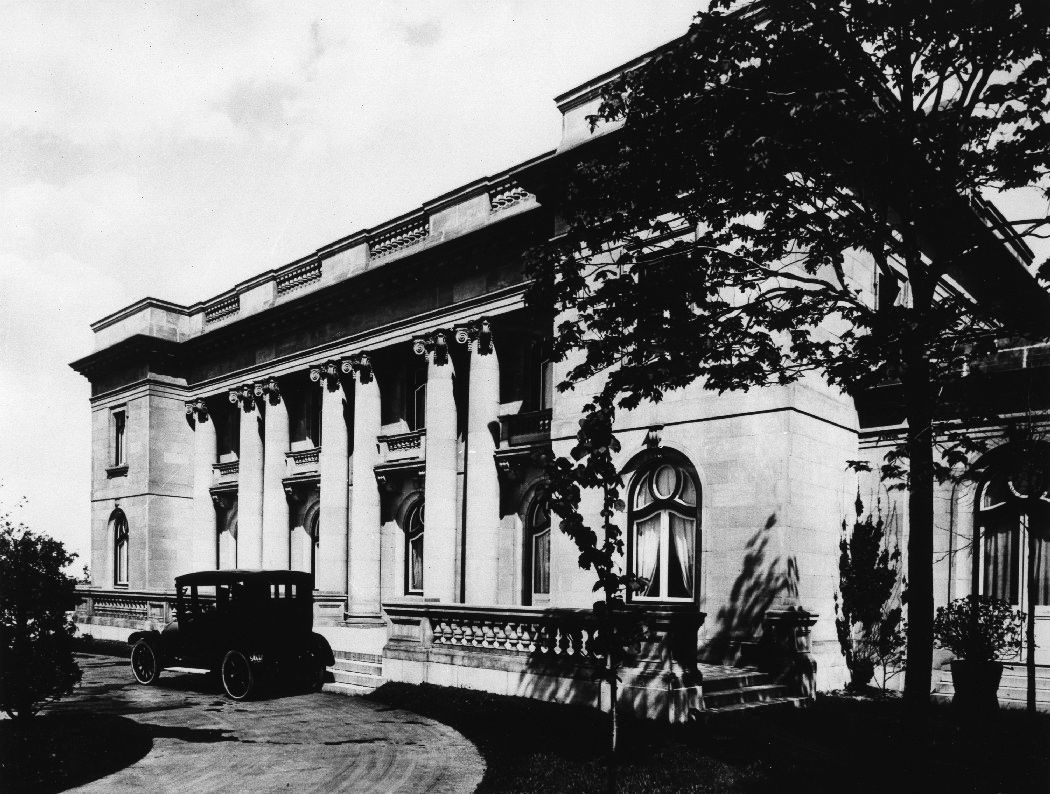 Château Dufresne, 4040 Sherbrooke Street East, Montreal, Quebec, Canada.